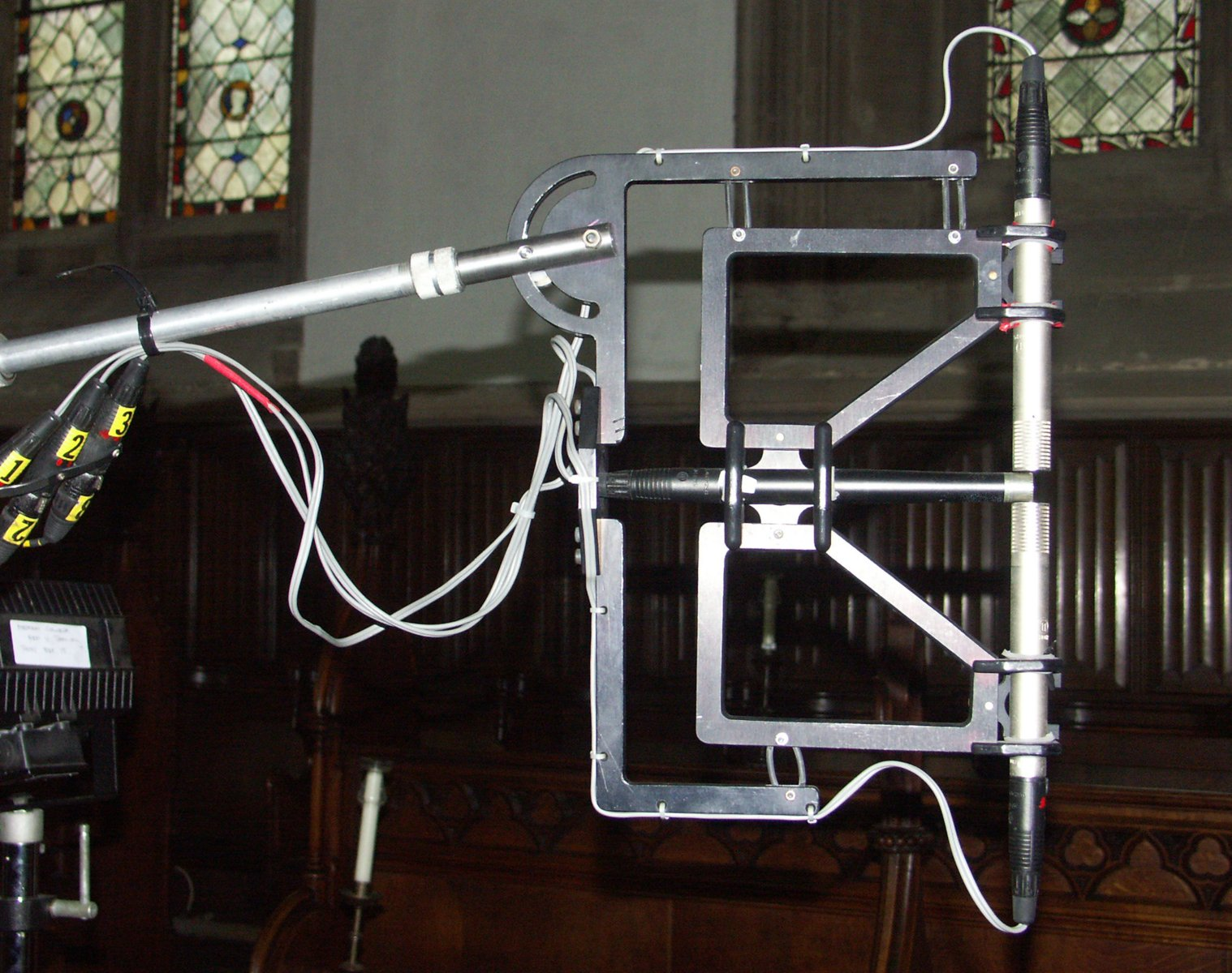 Native B-format microphone designed by Dr Halliday for Nimbus, photographed in Merton College Chapel, Oxford.